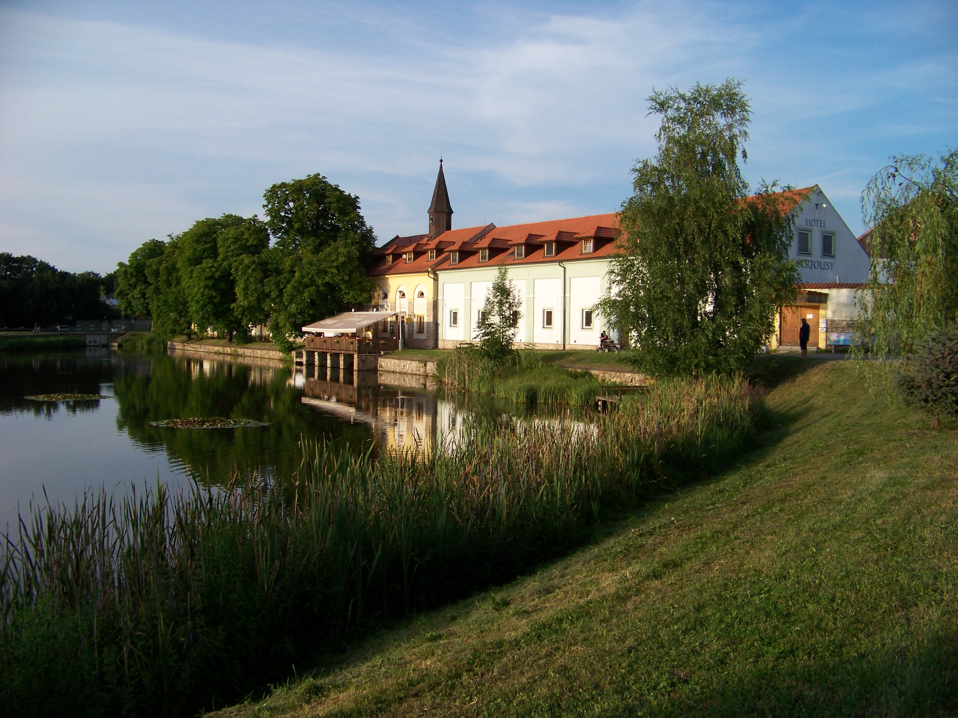 Prague-Horní Počernice. Čertousy, Podsychrovský Pond and Hotel Čertousy. - OpenStreetMap(Info)